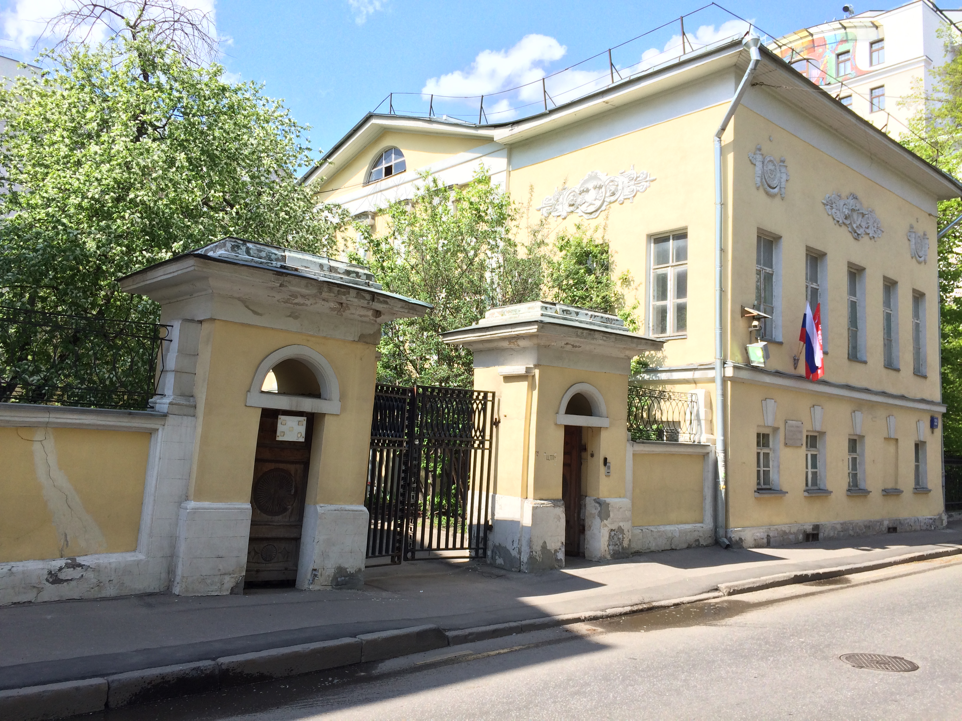 Institute of Geology of Ore Deposits, Petrography, Mineralogy, and Geochemistry, Russian Academy of Sciences. Moscow, Russia. Main building.